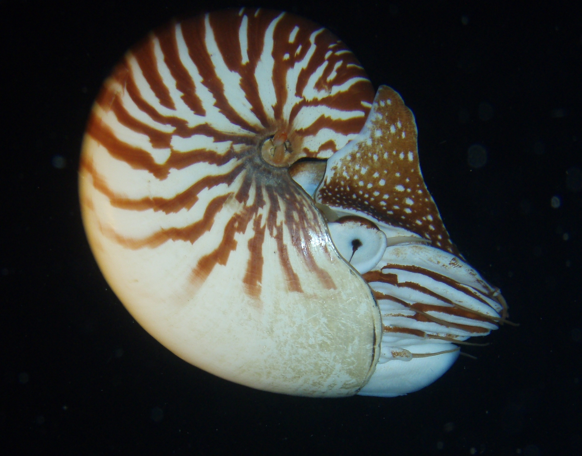 Nautilus macromphalus, night dive, 15 meters, Lifou, New Caledonia